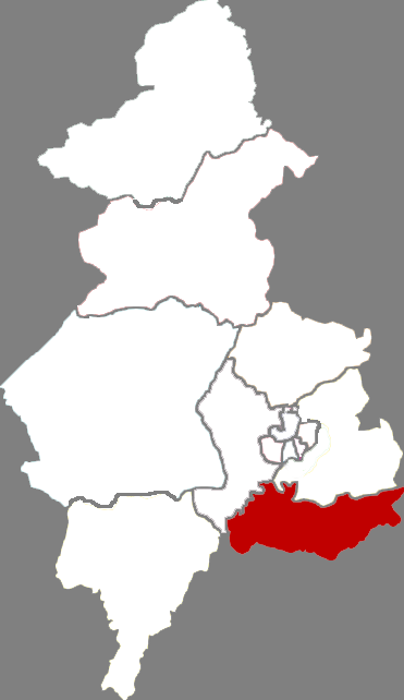 Location of Sujiatun district in Shenyang City, China